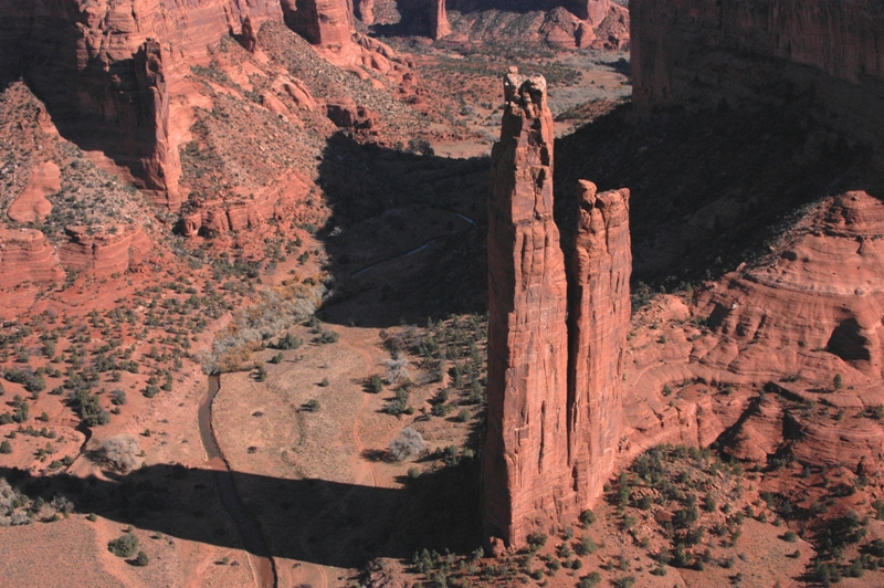 Spider Rock Overlook on the rim of Canyon de Chelly National Monument, Arizona, USA